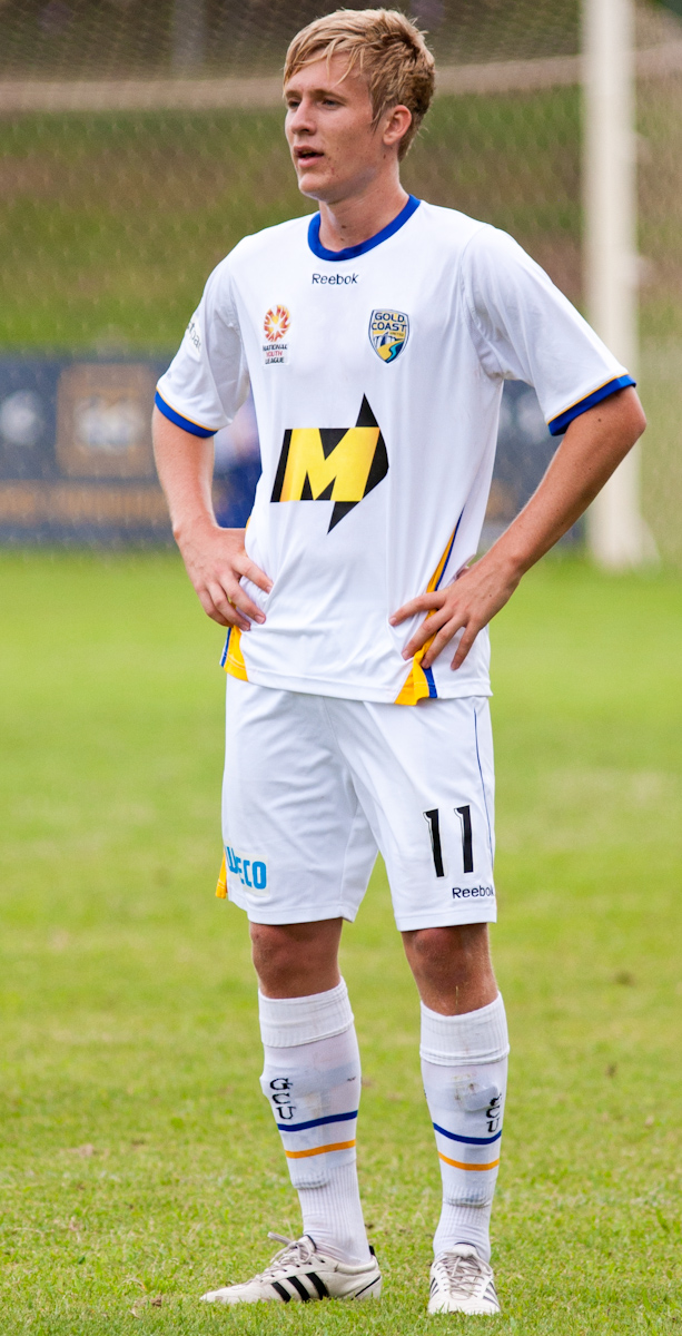 Ben Halloran playing for Gold Coast United against Sydney FC in the 2009-10 National Youth League.